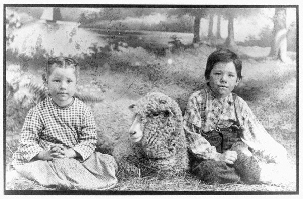 Lynn and Madge Butcher; children of Solomon D. Butcher